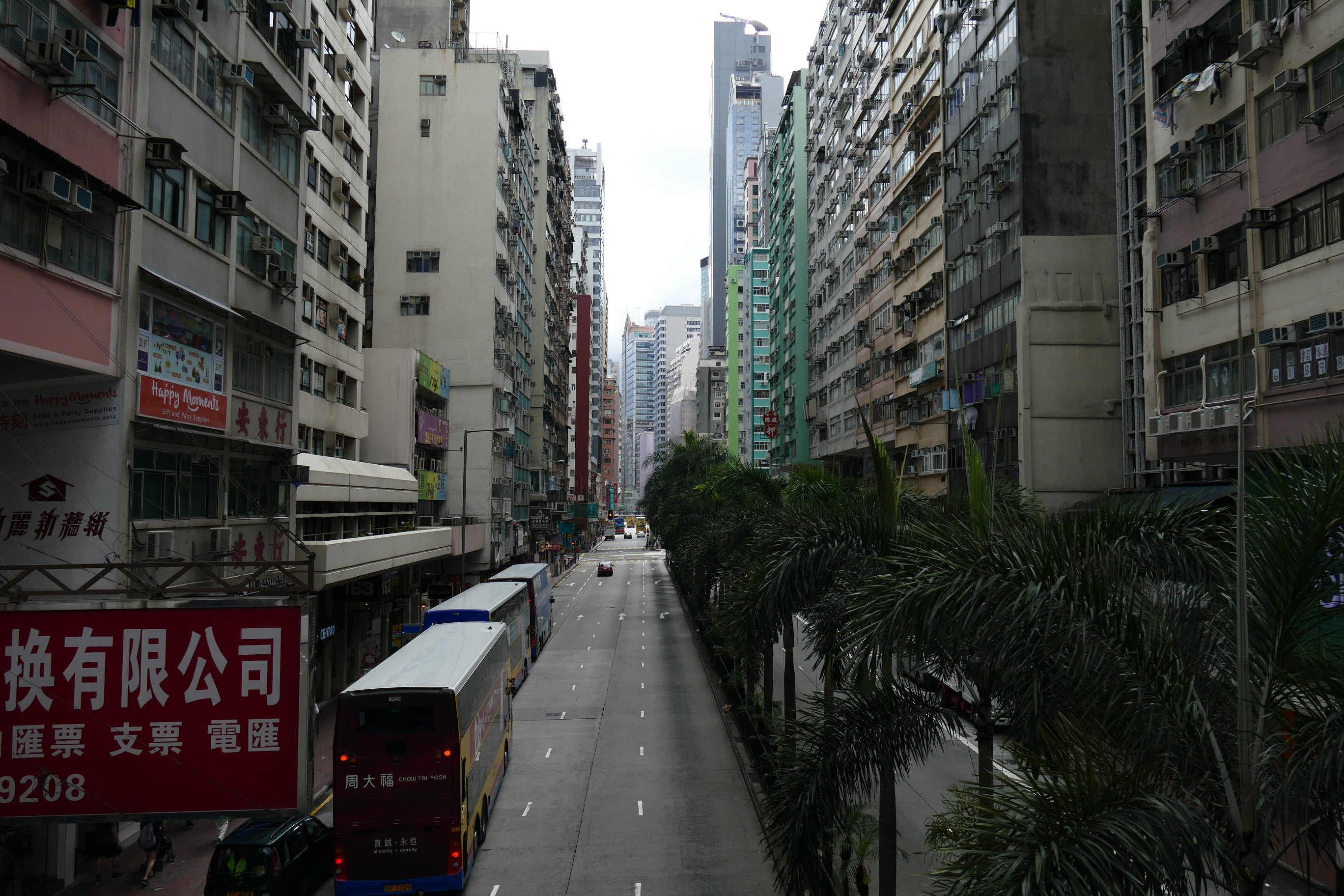 Hennessy Road - Wan Chai, Hong Kong, 17.5.2015